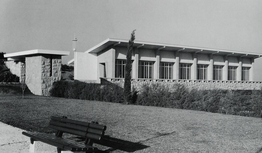 Lisbon Tenis Club, Monsanto Park (architecture: Keil do Amaral)